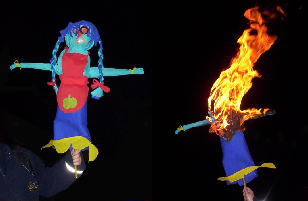 Modern manequin of Marzanna - drowning of Marzanna is a folk tradition in Poland (it includes burning before drowning).